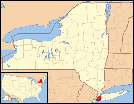 Map of the Catholic Diocese of Brooklyn in the USA.